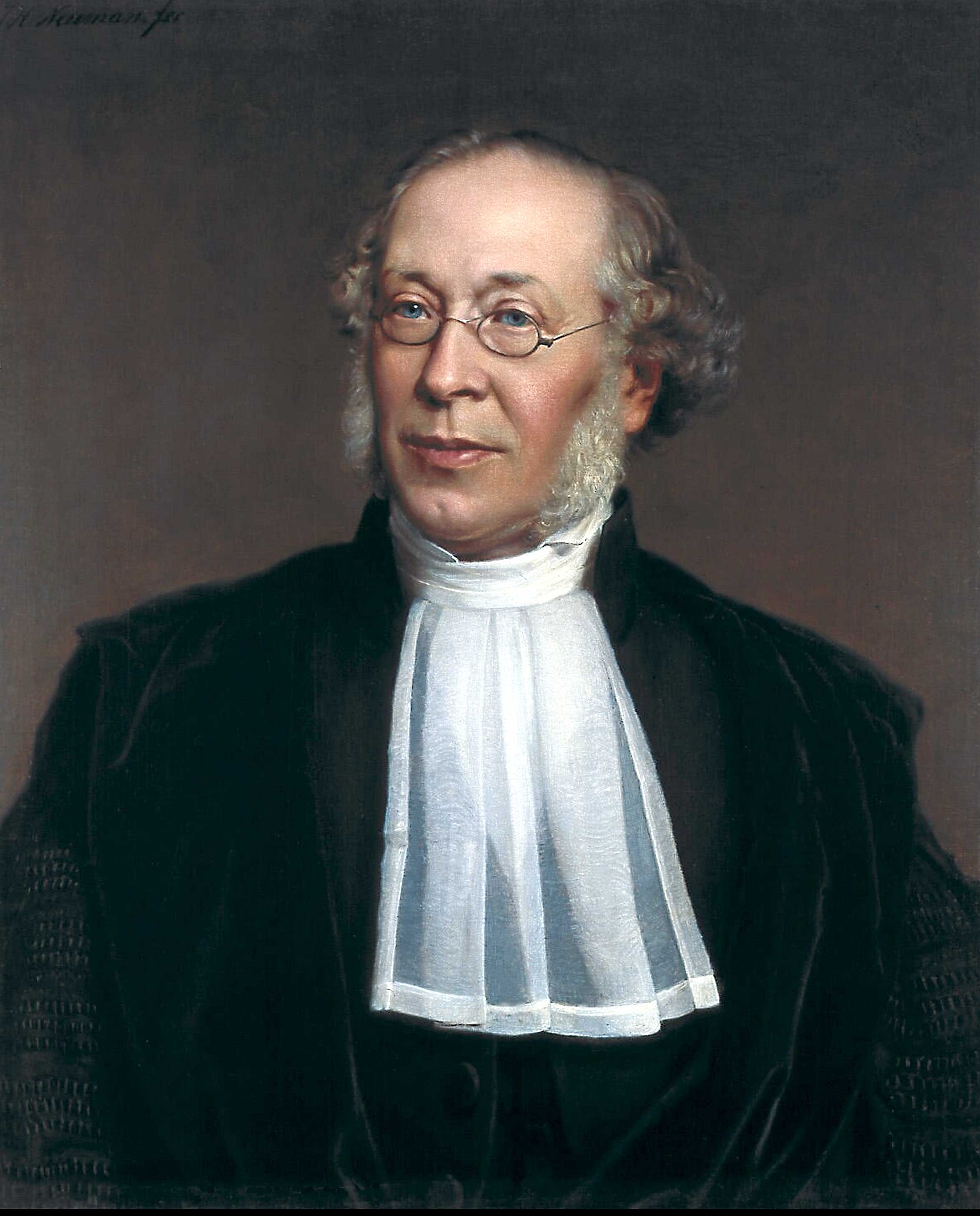 George Willem Vreede (1809-1880) Dutch jurist and legal historian